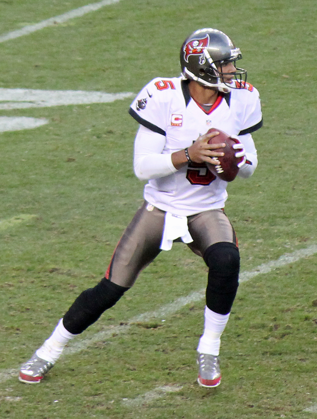 Josh Freeman during a game against the Denver Broncos in Denver on December 2, 2012.